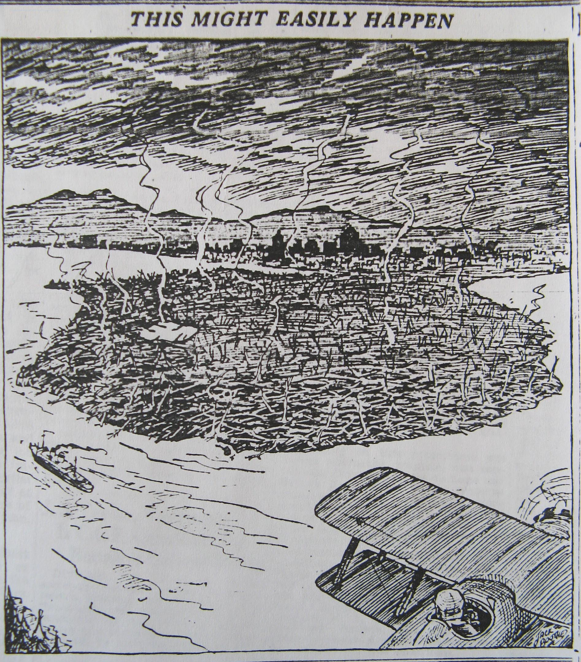 Editorial cartoon illustrating potential fire damage in Stanley Park from the Vancouver Daily Province newspaper.